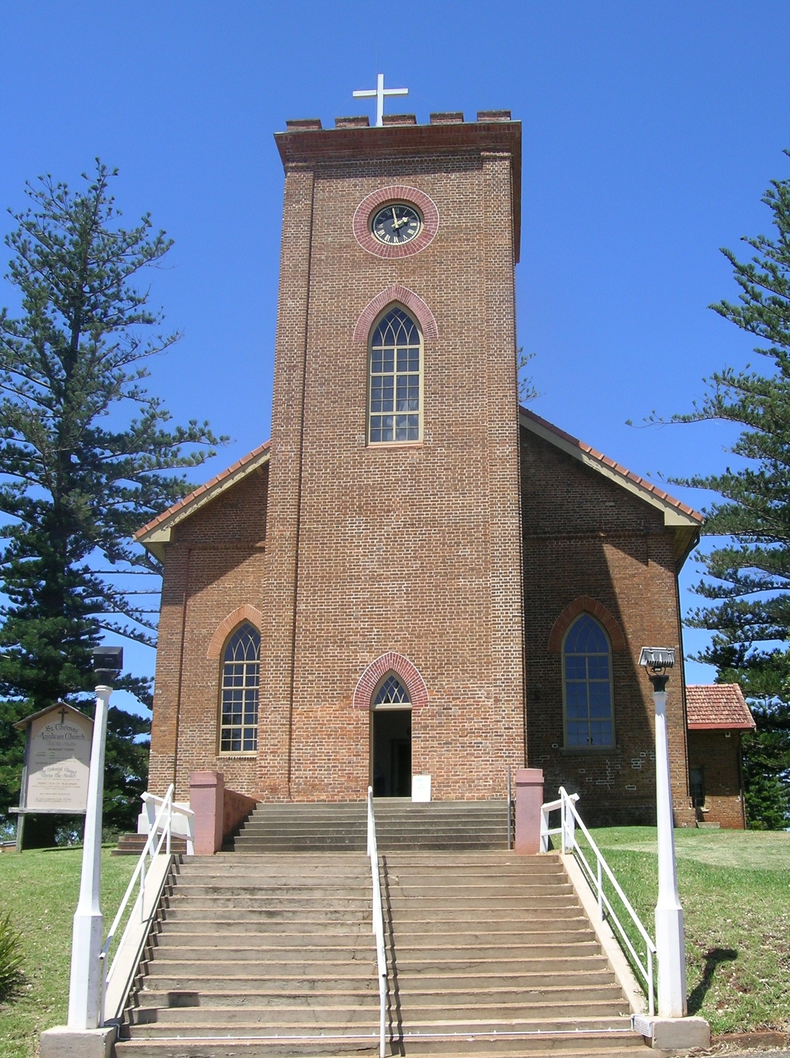 St Thomas church, Port Macquarie, NSW